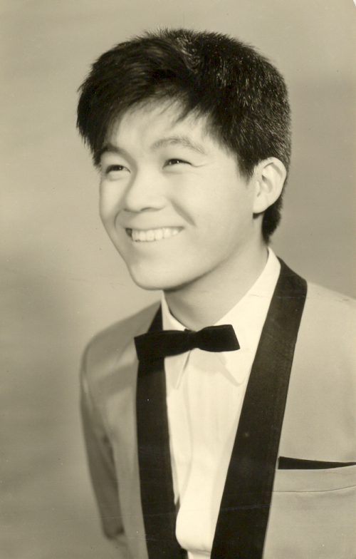 Private photograph from my own collection. Photograph taken in 1961-62